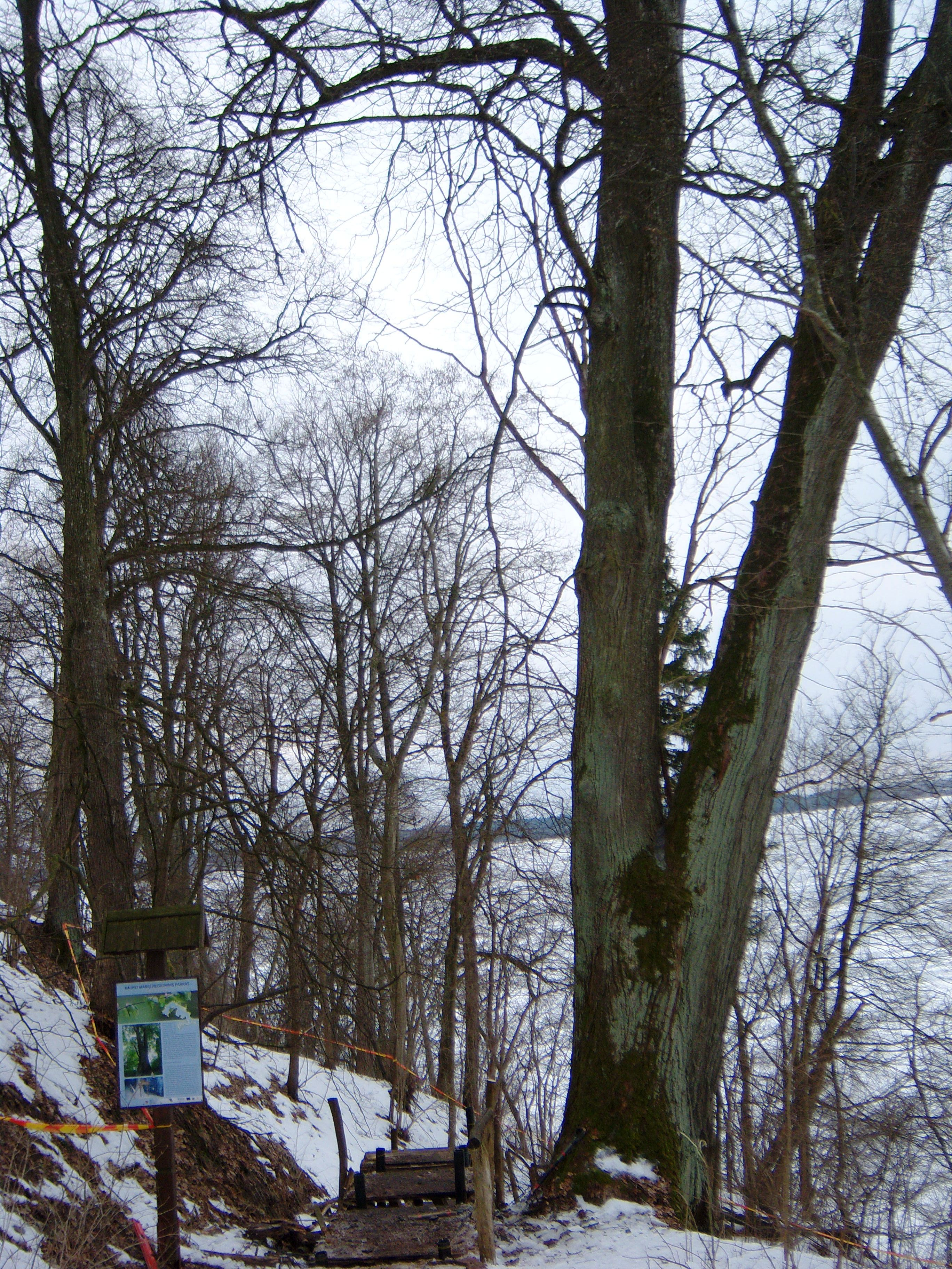 Lime tree of Žiegždriai, Kaunas district, Lithuania